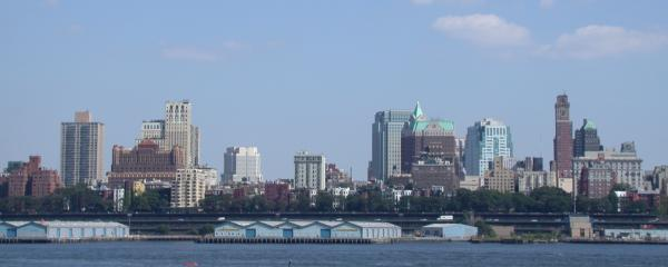 Brooklyn skyline, seen from the Staten Island Ferry off the tip of lower Manhattan